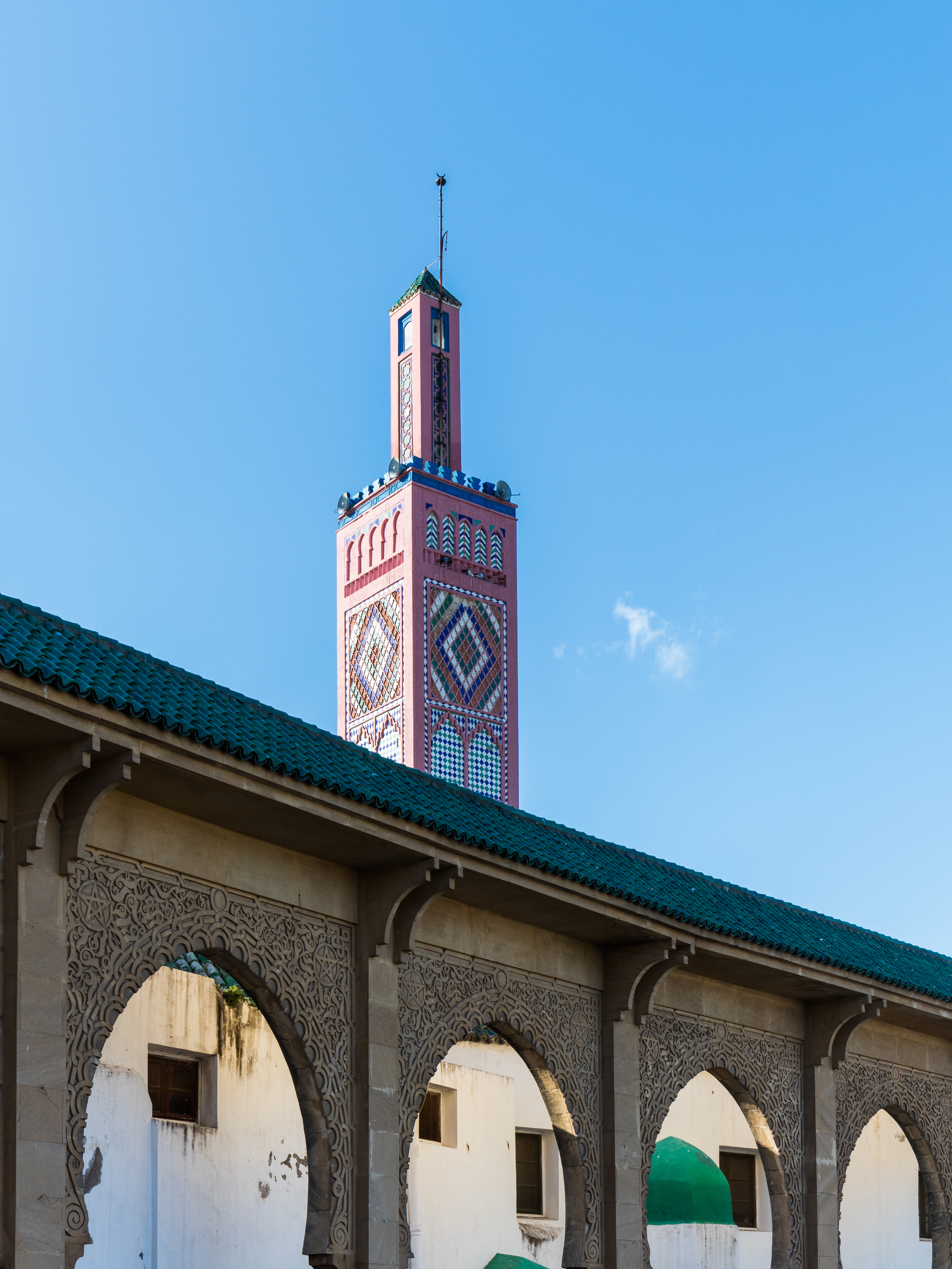 April 9th 1947 Square, Tangier, Morocco